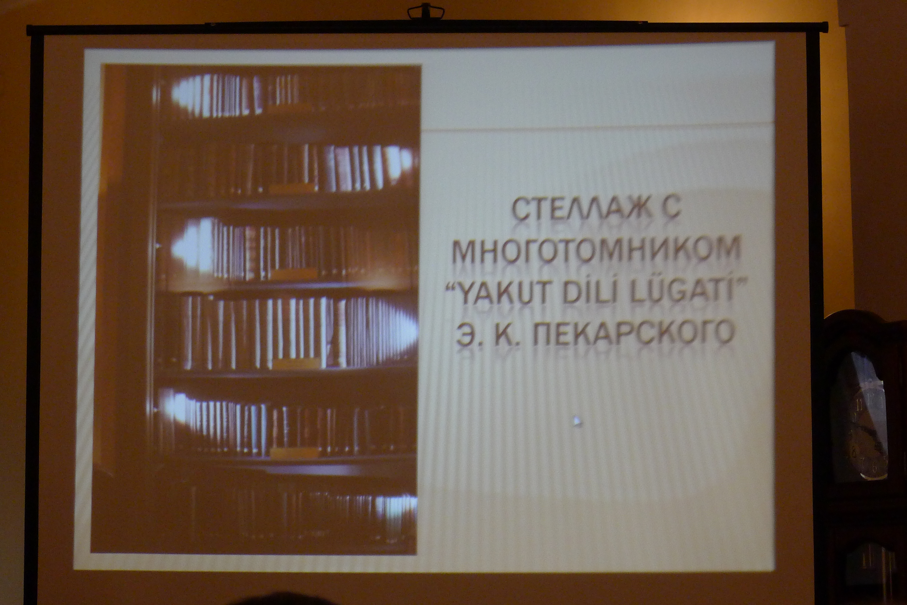 Dictionary of the Sakha (Yakut) language was translated into Turkish by the order of AtatürkTürkçe: Sahastan (Yakutistan) Milli Kütüphanesinde türkçeye çevirilmiş saha dilin sözlüğü gösterildi. Çeviri Atatürk'ün talimatıyla 30'larda yapılmıştır.